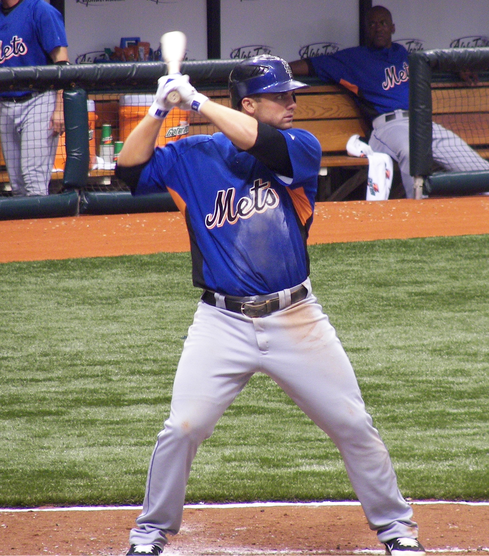 New York Mets third baseman David Wright during a Mets/Devil Rays spring training game at Tropicana Field in St. Petersburg, Florida.